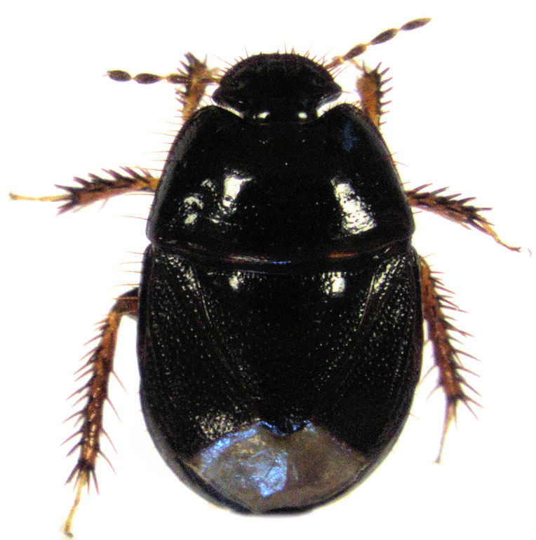 Microporus thoreyi (adult female, length about 4.6 mm)